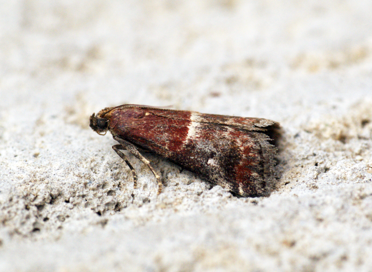 Canvey Wick, Essex